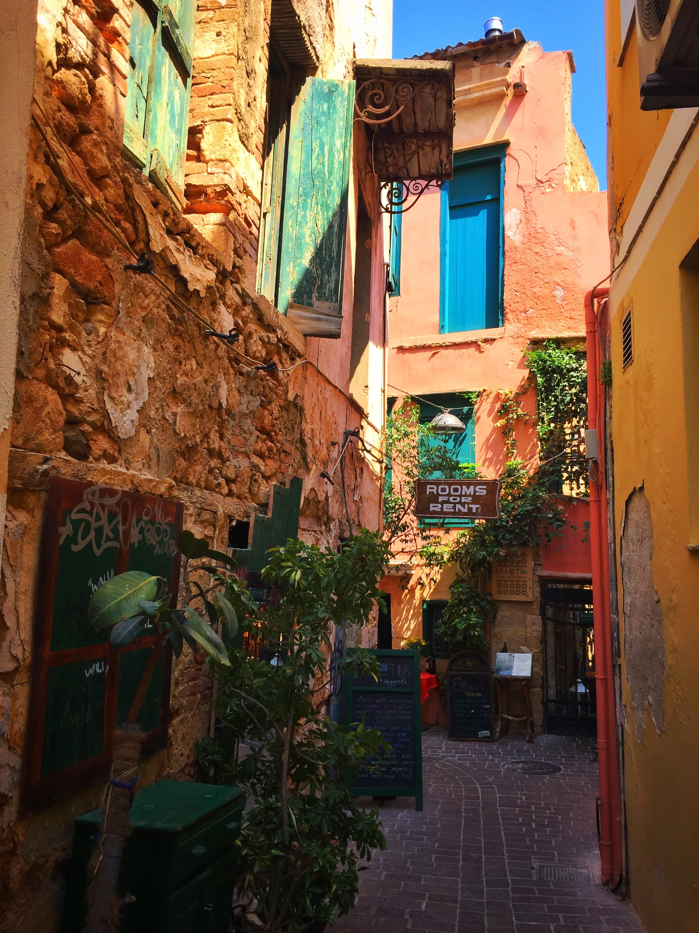 Colorful alley in the heart of Chania